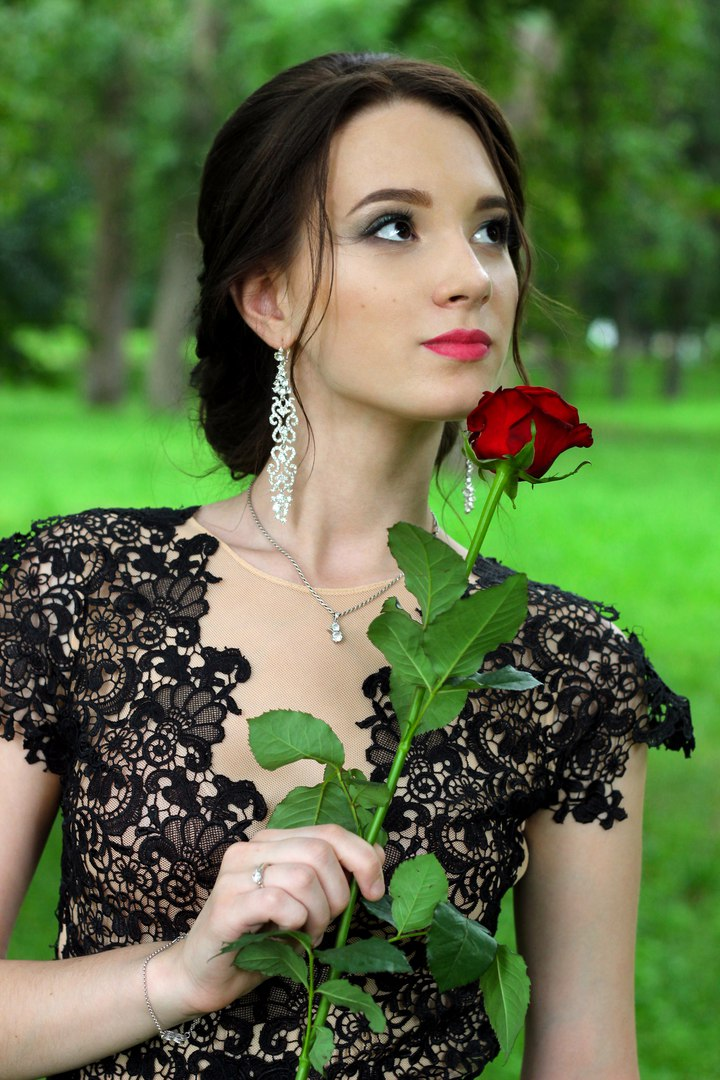 Arina